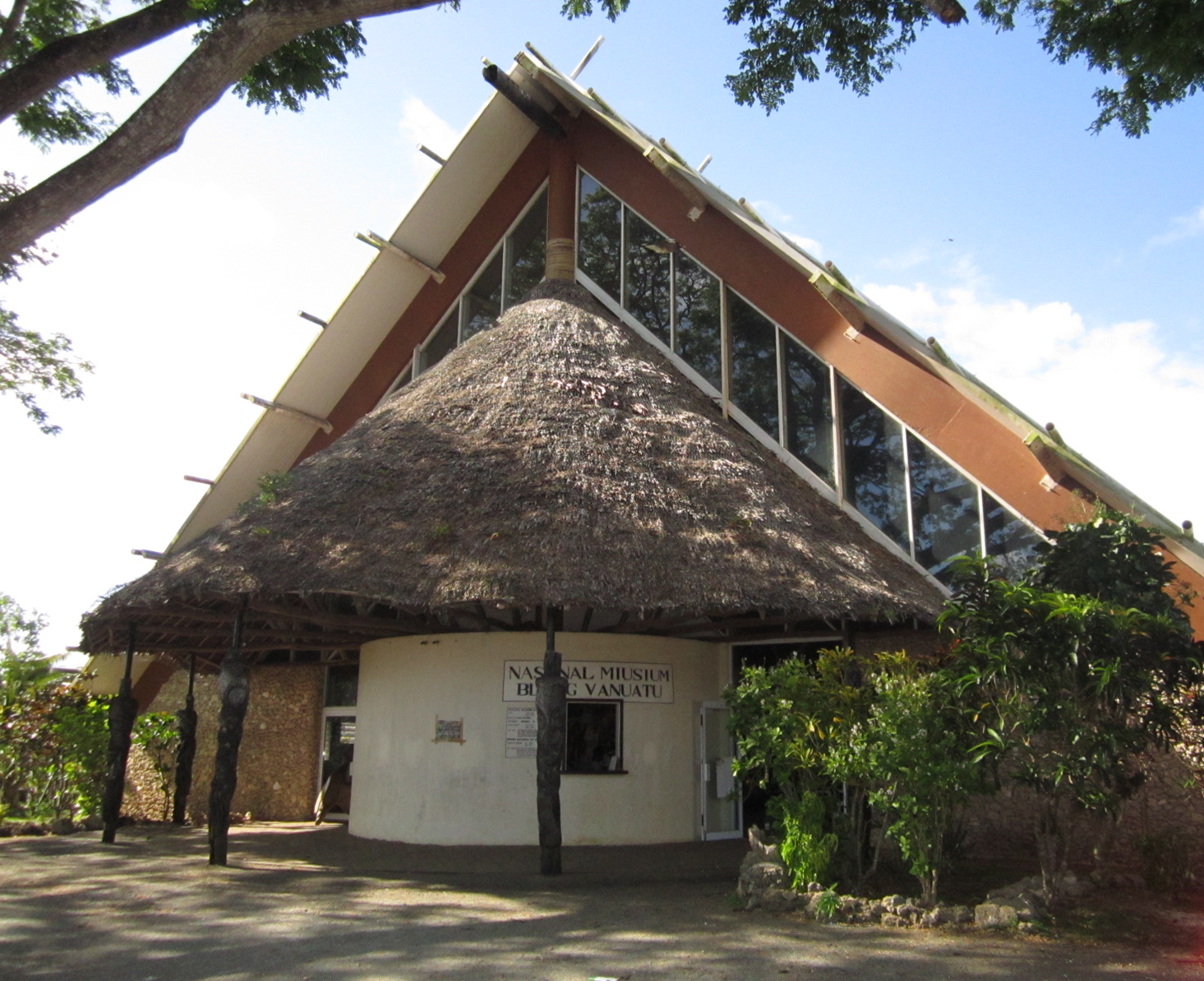 Main entrance of the National Museum of Vanuatu - Vanuatu Cultural Centre